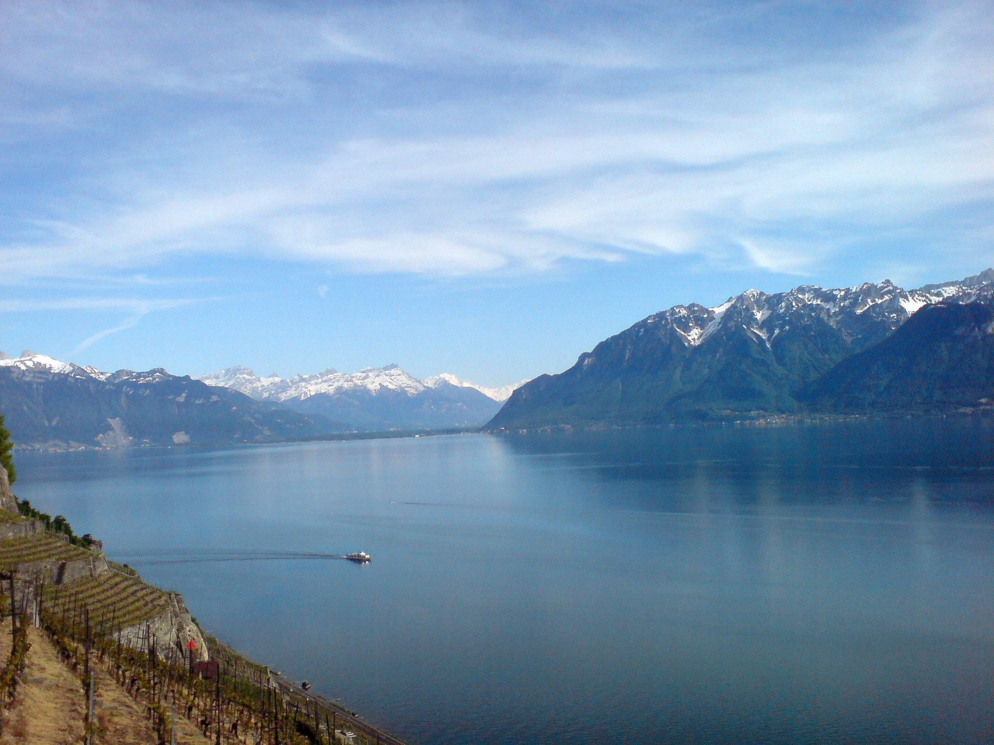 Lavaux Vineyards and lake Geneva, near Riex, Vaud. Mountains visible on the photo are (from left to right): Tour d'Aï, 2331 m Grand Muveran, 3051 m Dent Favre, 2919 m Dent de Morcles, 2969 m Grand Combin, 4314 m Le Gramont, 2172 m Cornettes de Bise, 2432 m